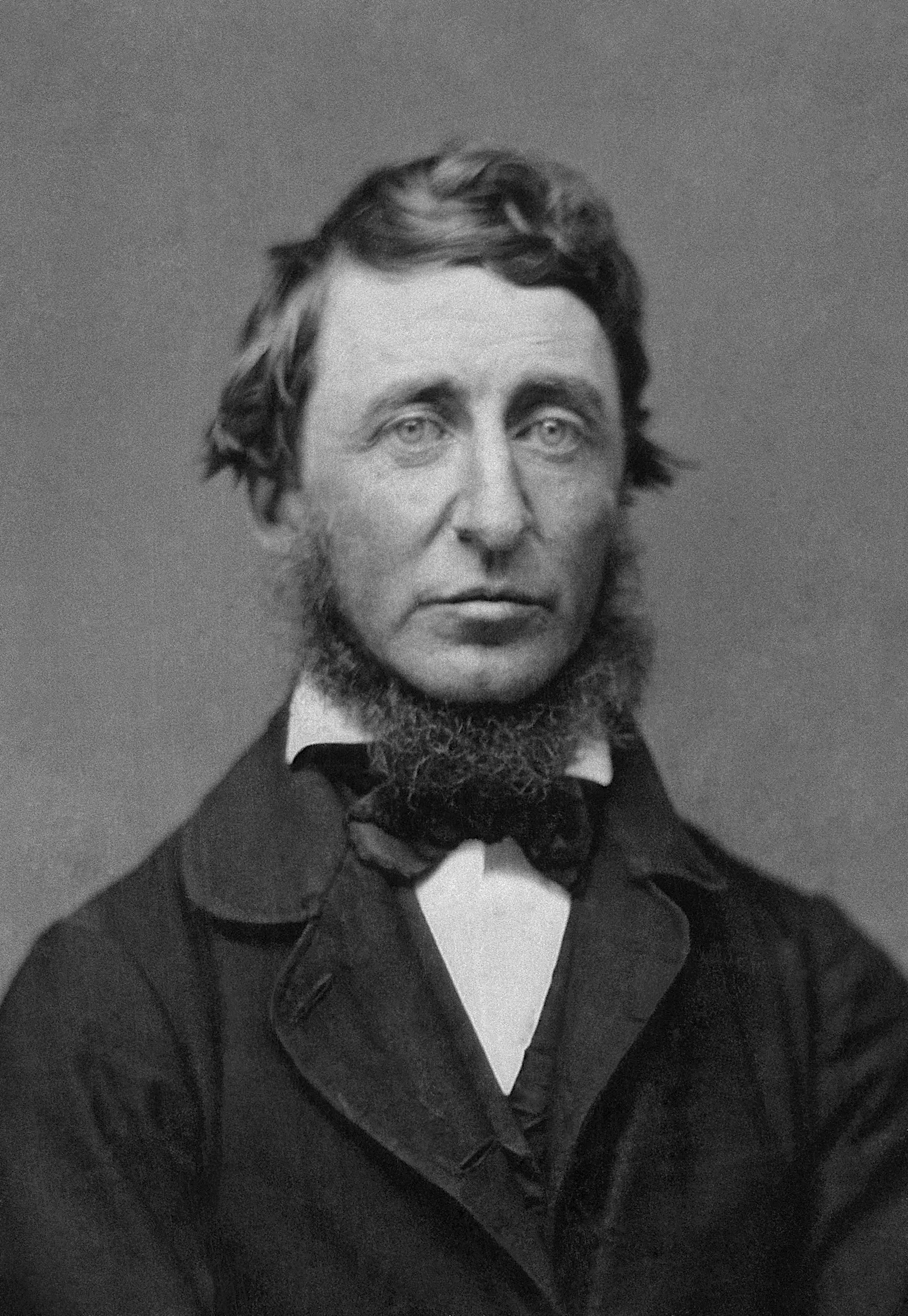 Portrait photograph from a ninth-plate daguerreotype of Henry David Thoreau. Calvin R. Greene was a Thoreau “disciple” who lived in Rochester, Michigan, and who first began corresponding with Thoreau in January 1856. When Greene asked for a photographic image of the author, Thoreau initially replied: “You may rely on it that you have the best of me in my books, and that I am not worth seeing personally – the stuttering, blundering, clodhopper that I am.” Yet Greene repeated his request and sent money for the sitting. Thoreau must have kept this commitment to his fan in the back of his mind for the next several months. On June 18, 1856, during a trip to Worcester, Massachusetts, Henry Thoreau visited the Daguerrean Palace of Benjamin D. Maxham at 16 Harrington Corner and had three daguerreotypes taken for fifty cents each. He gave two of the prints to his Worcester friends and hosts, H.G.O. Blake and Theophilius Brown. The third he sent to Calvin Greene in Michigan. “While in Worcester this week I obtained the accompanying daguerreotype – which my friends think is pretty good – though better looking than I,” Thoreau wrote.